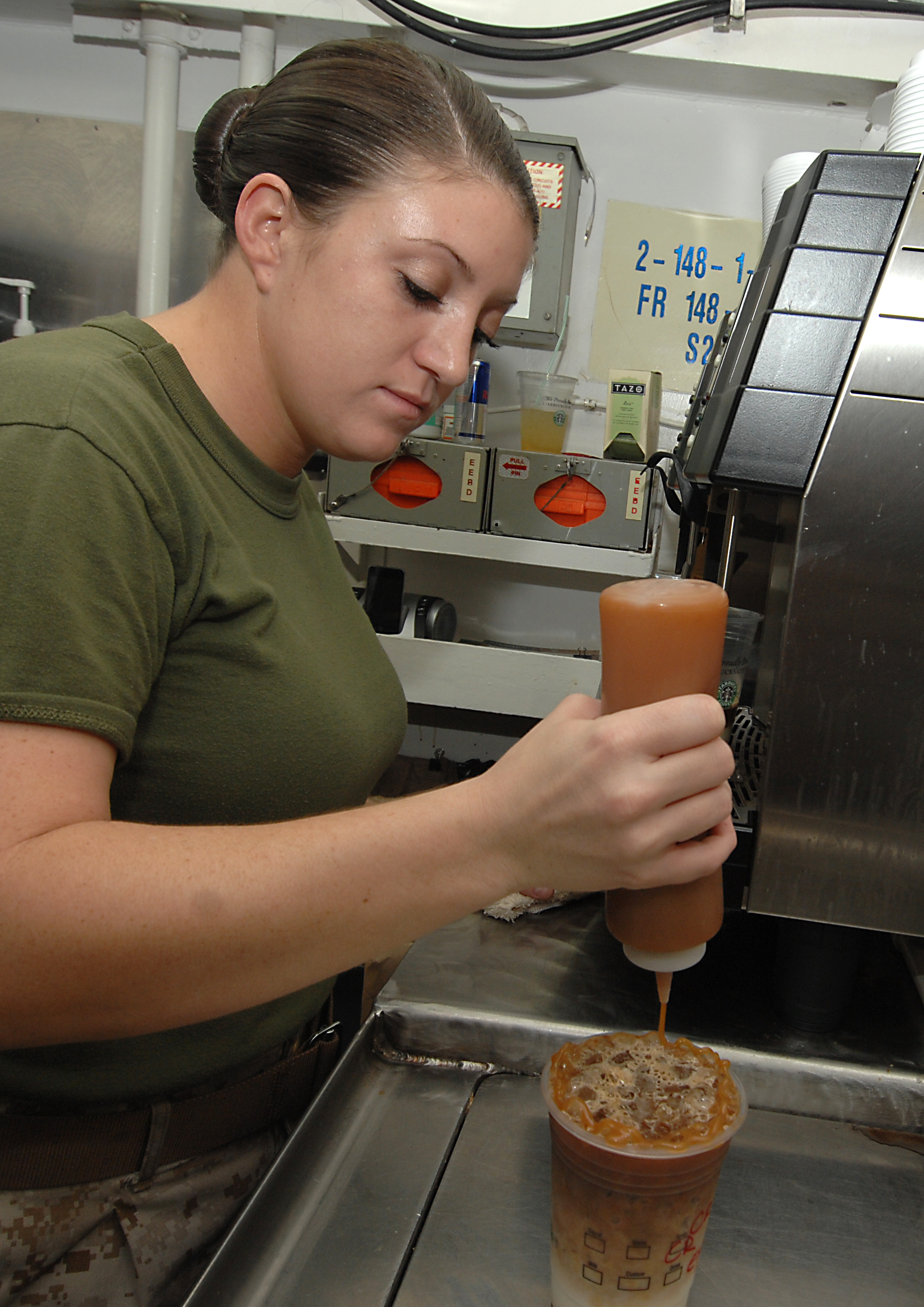 Cpl. Ellen Wright, from Mobile, Ala., prepares a caramel macchiato in the Buck Stop aboard USS Harry S. Truman (CVN 75). Truman's Morale, Welfare and Recreation (MWR) program runs the Buck Stop to provide flavored coffee drinks to Sailors and Marines as well as raise money for MWR sponsored events. The Harry S. Truman Carrier Strike Group is deployed n support of maritime security operations and theater security cooperation efforts in the U.S. 5th Fleet areas of responsibility. (U.S. Navy Photo by Mass Communication Specialist 3rd Class Jared Hall/Released).